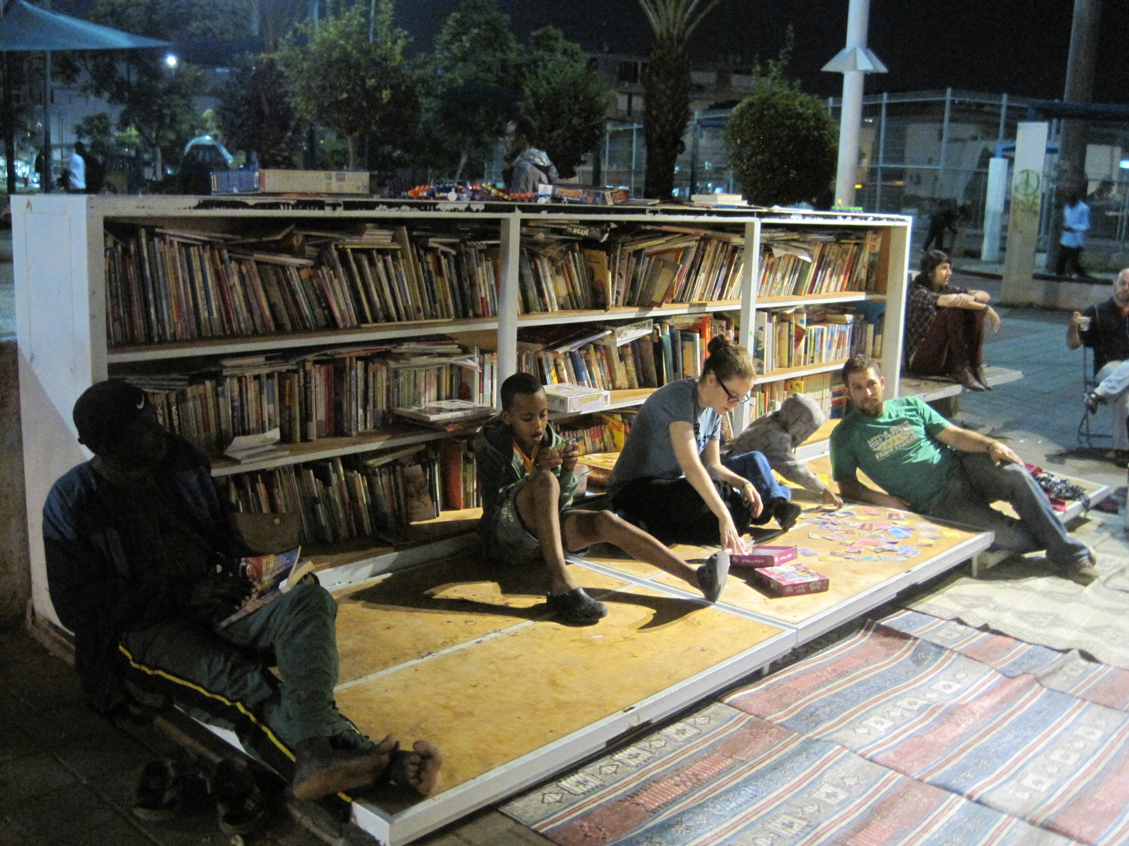 Levinski Garden Library